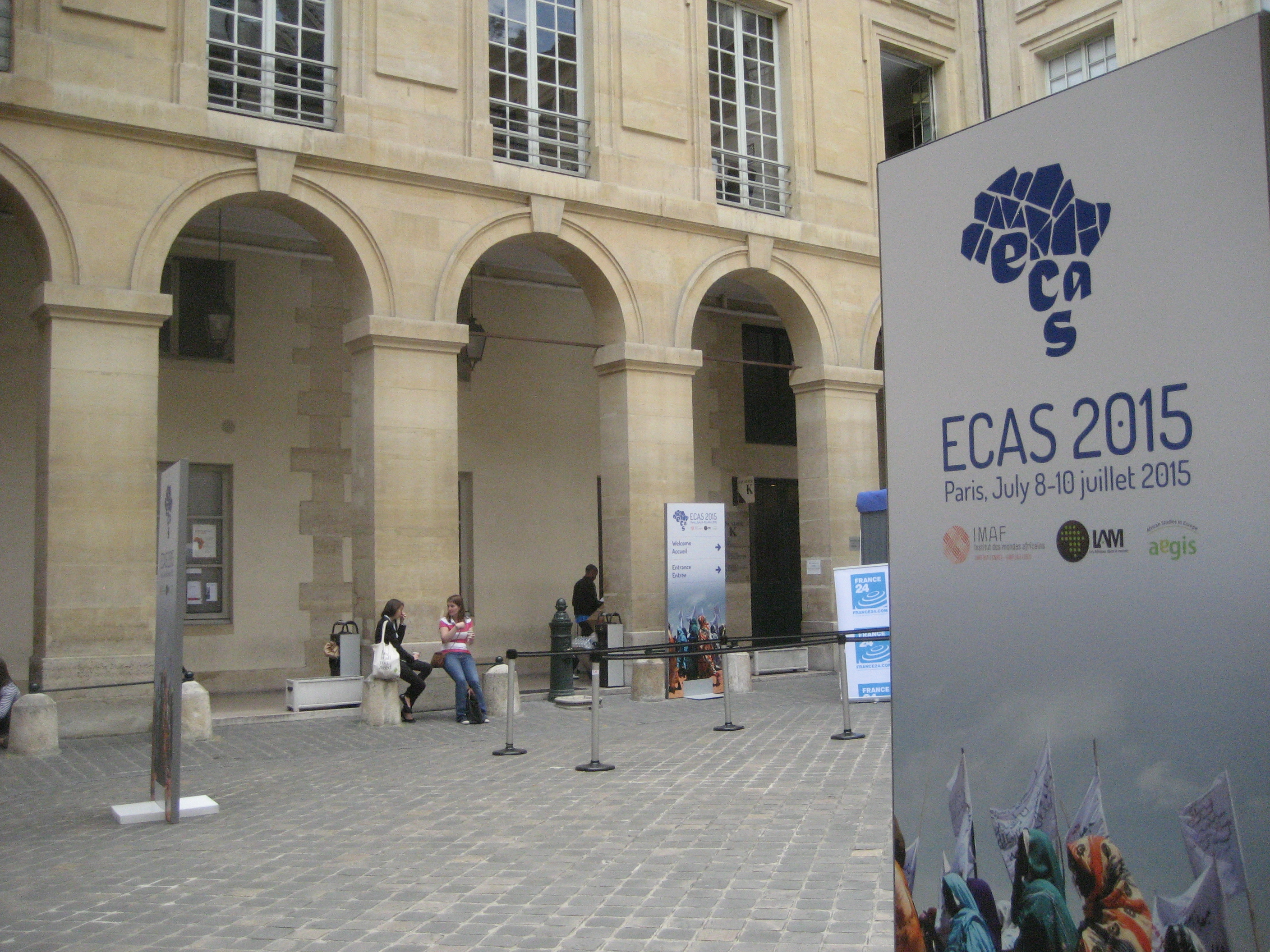 ECAS 2015 (6th European Conference on African Studies) in Sorbonne Pantheon University, Paris